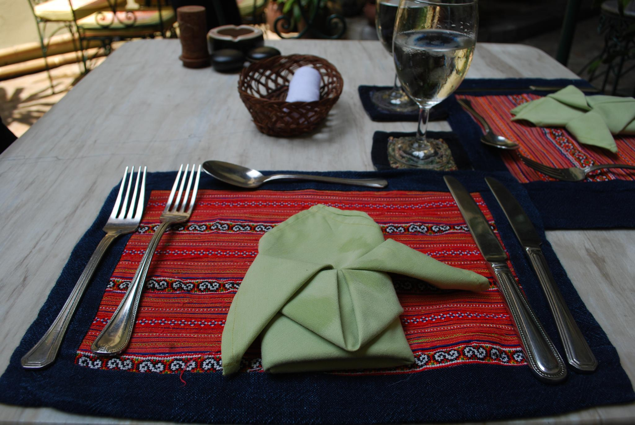 A charming French restaurant that harks back to the French Colonial days, even if the food is trying a little too hard. Nhà Hàng Green Tangerine 48, Hàng Bè, Q.Hoàn Kiếm Việt Nam (04) 3825 1286 Reviews: - Green Tangerine - Frommer's Vietnam, 3rd Edition In a lovingly restored 1928 colonial in the center of the Old Quarter, the Green Tangerine offers a menu of rich, delicious French fare. - Green Tangerine - Lonely Planet - Green Tangerine - Trip Advisor - Green Tangerine - NoodlePie